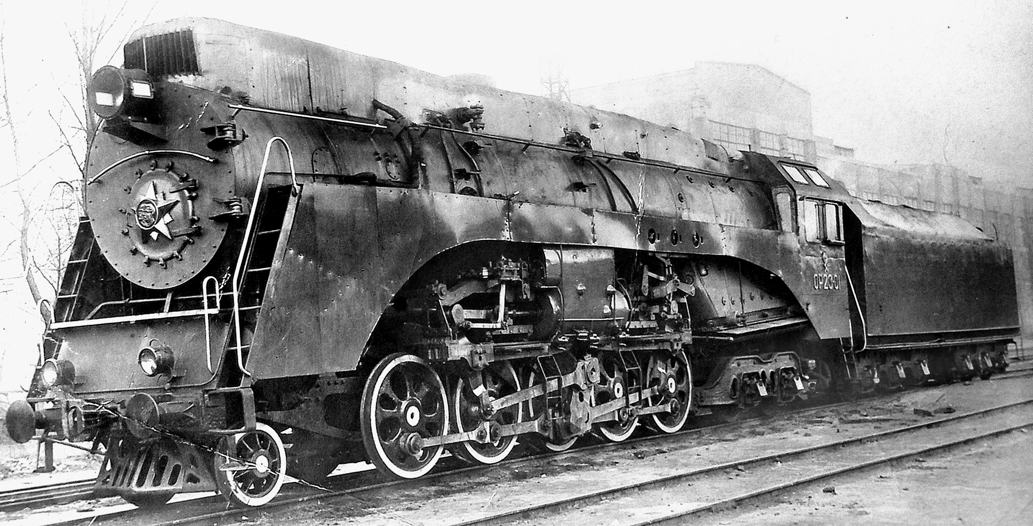 The Soviet-built opposed-piston 2-10-4 of 1949. Click here to read about this and other strange Soviet locomotives.